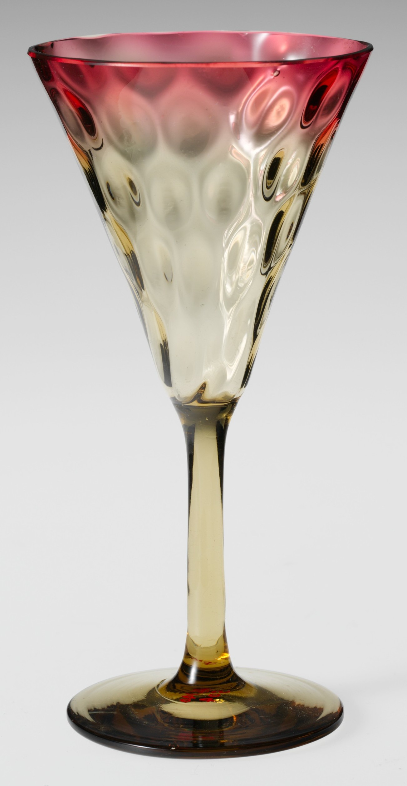 American; Sherry glass; Glass